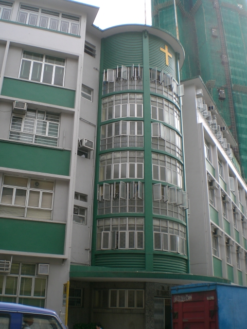 聖芳濟書院（St. Francis Xavier's College） Author= Au Manwen